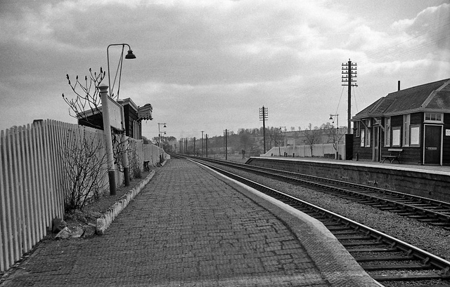 Blockley Station. View SE, towards Oxford etc.; ex-Great Western main line, (London - Reading) - Oxford - Worcester. Station closed 3/1/66.